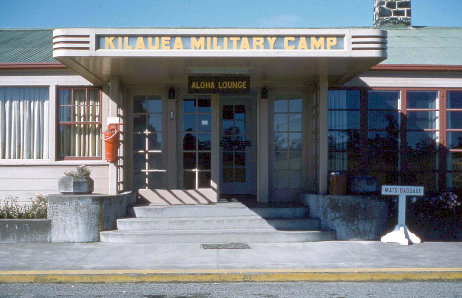 Kilauea Military Camp Office, part of Hawaii Volcanoes National Park, as it appeared in Oct. 1959